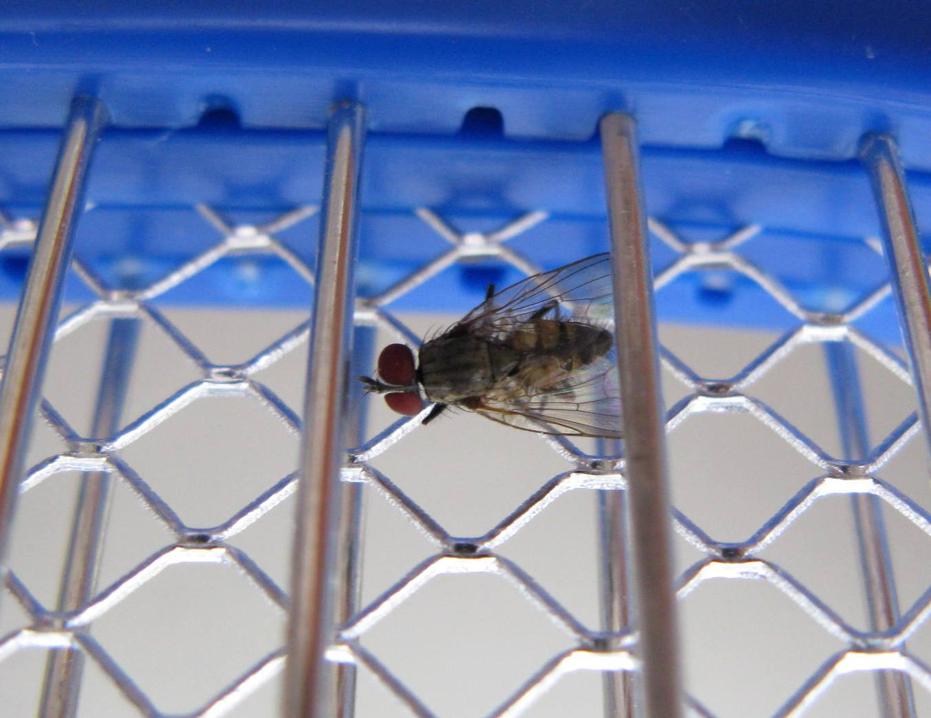 electric flyswatter with three electrode layers and electrocuted fly